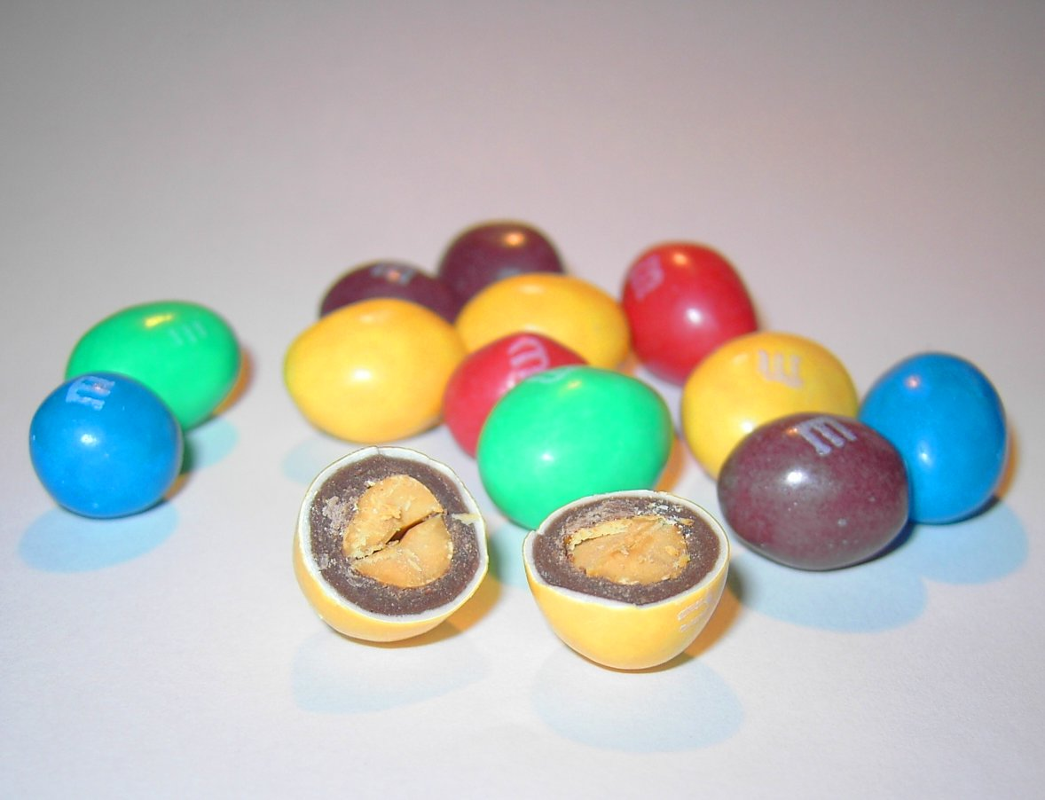 M&M's "Peanut"